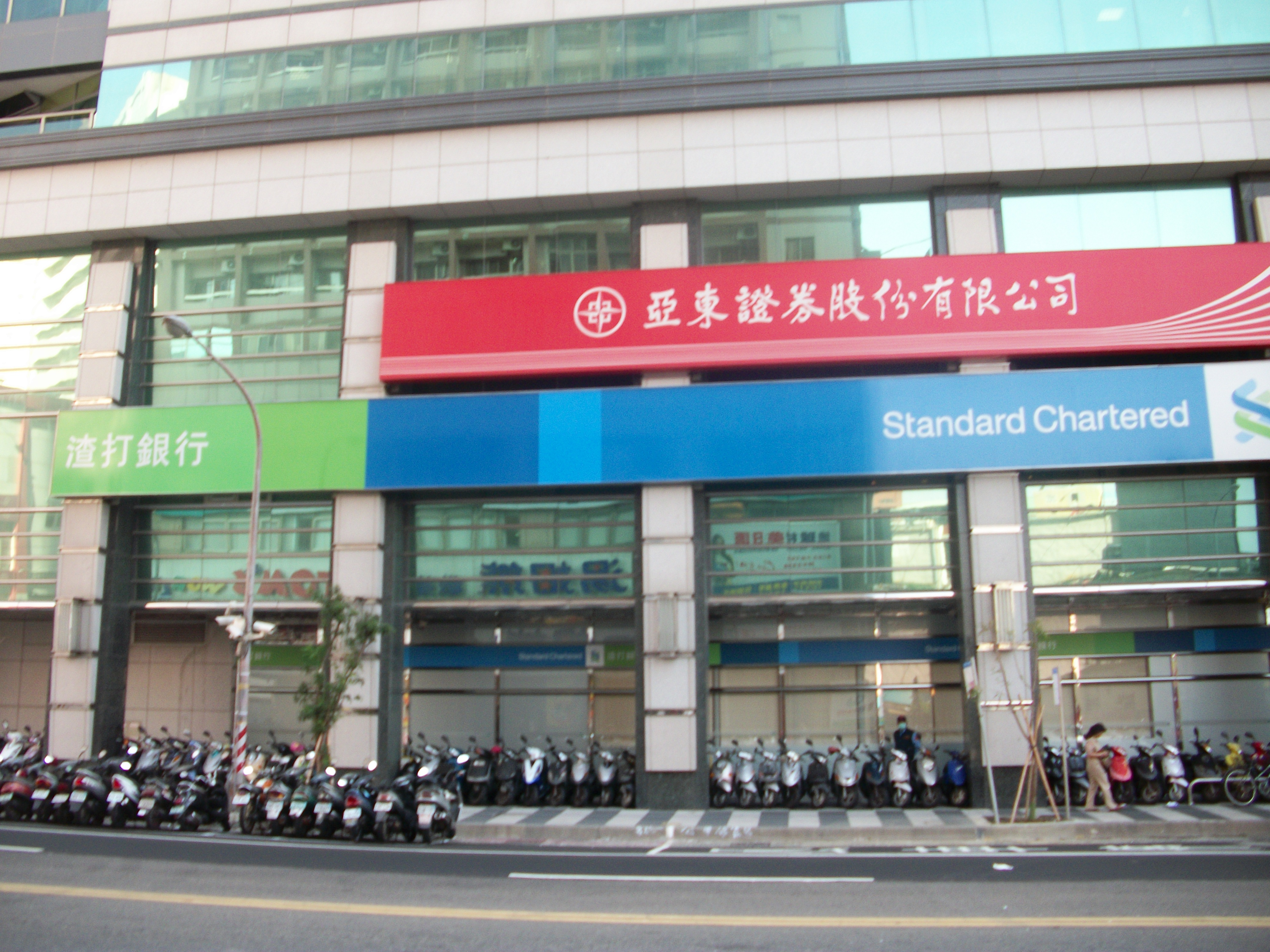 Sanduo Branch of Standard Chartered Bank (Taiwan) in Kaohsiung City.